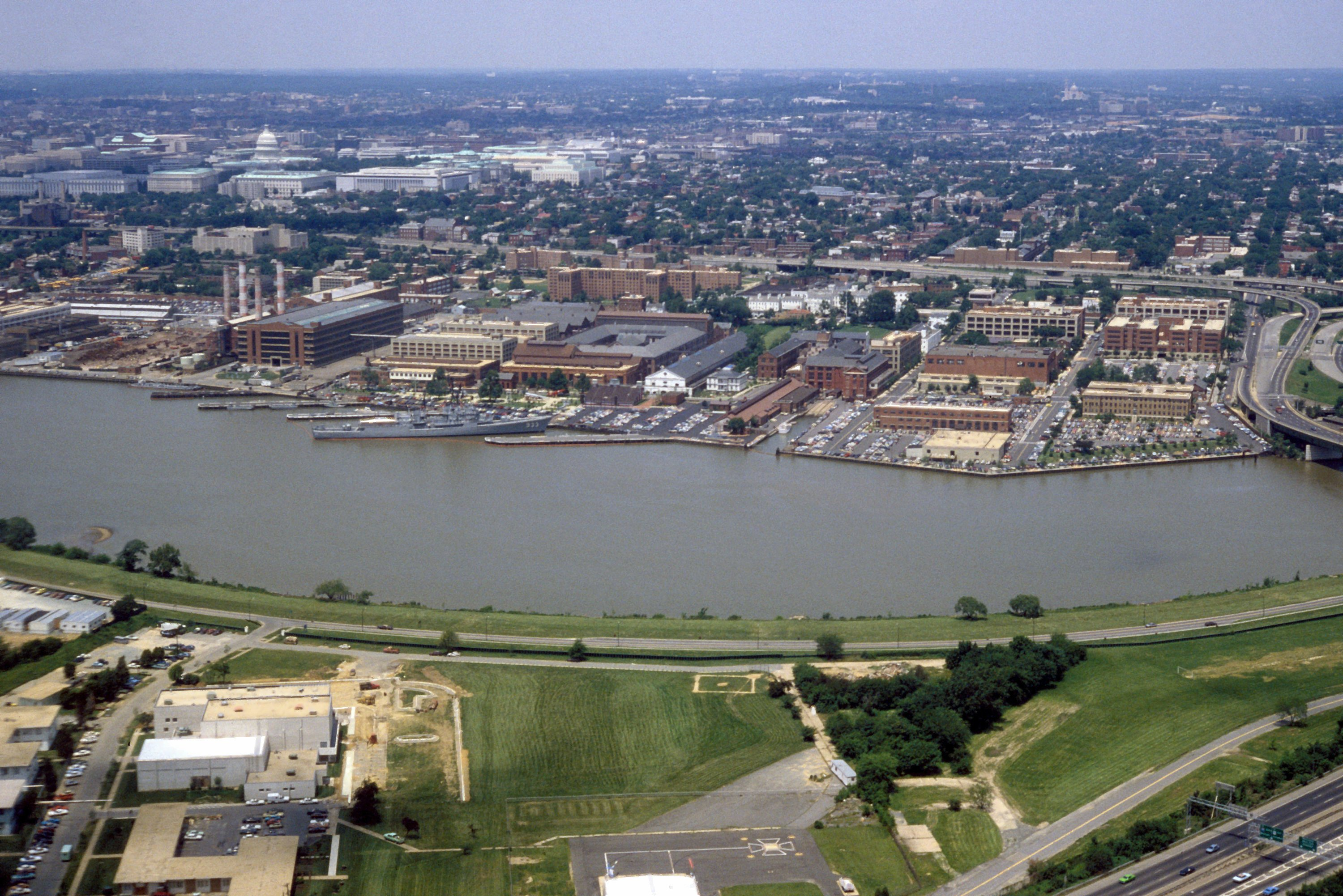 Aerial view of the Washington Navy Yard. The Forest Sherman class destroyer ex-USS BARRY (DD 933) is visible, center.